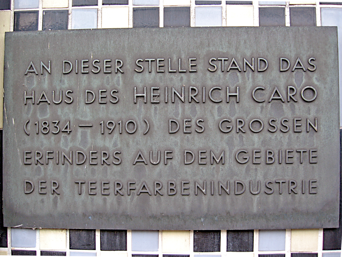 memorial plaque for Heinrich Caro on a house in C8, Mannheim (Germany).